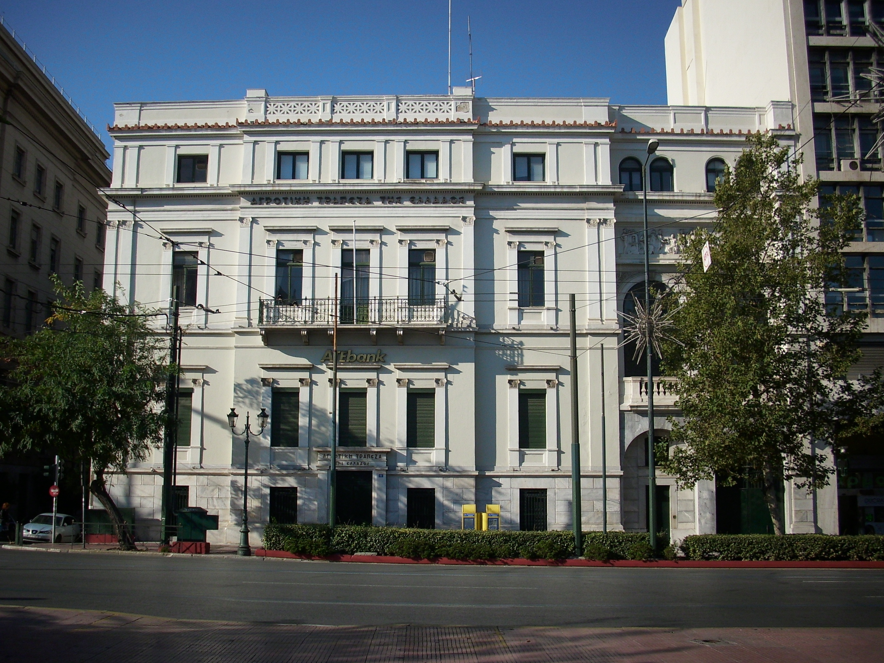 Serpieri Mansion, built in 1881 as seen from across Panepistimiou Street in central Athens, in October 2014.